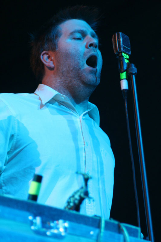 James Murphy (no it's not Chris Moyles) from LCD Soundsystem at Coachella 2007. Photo by Paul Familetti